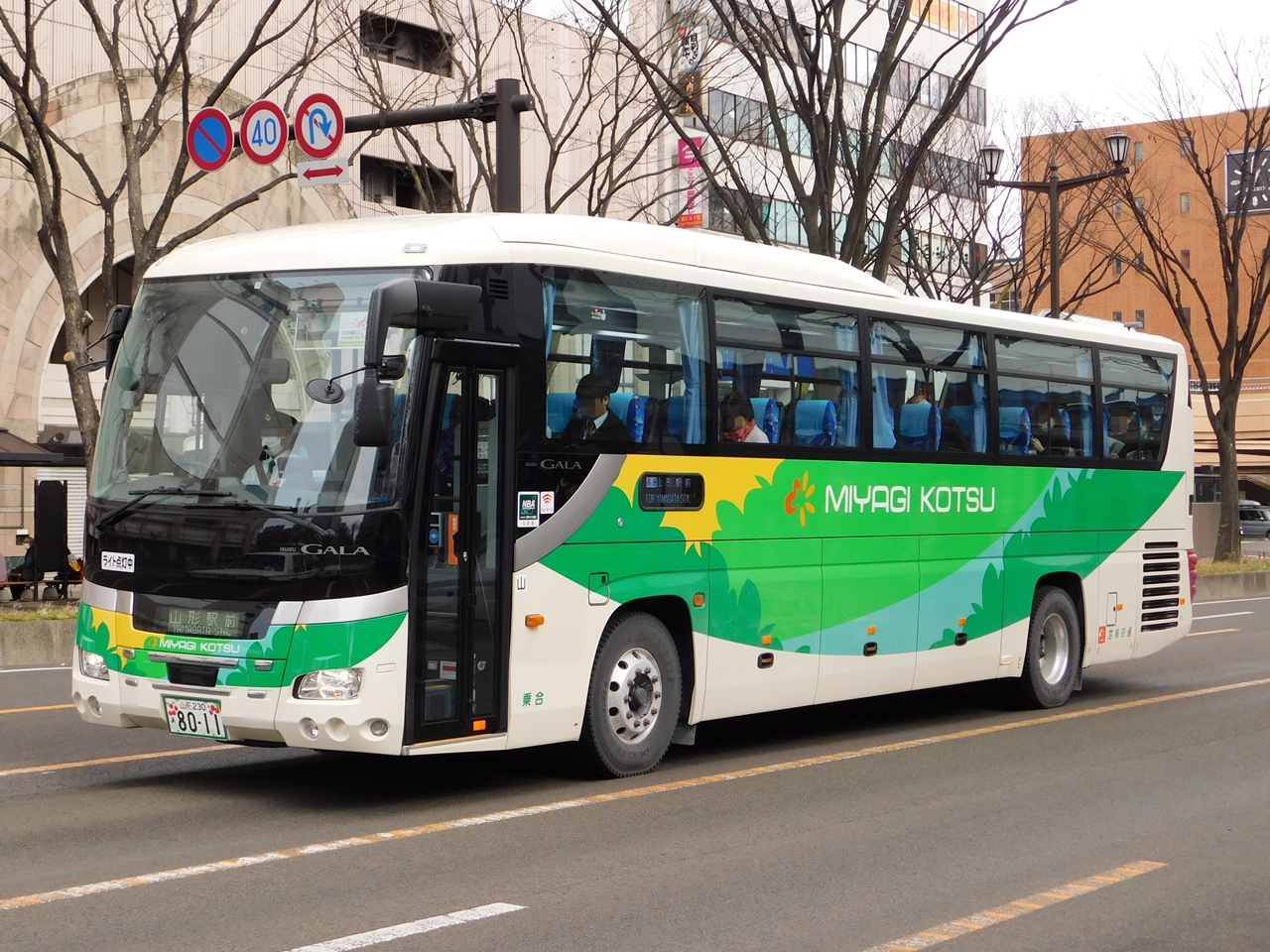 Miyagi Kotsu Isuzu Gala (2TG-RU1ASDJ)on highwaybus Sendai-Yamagata